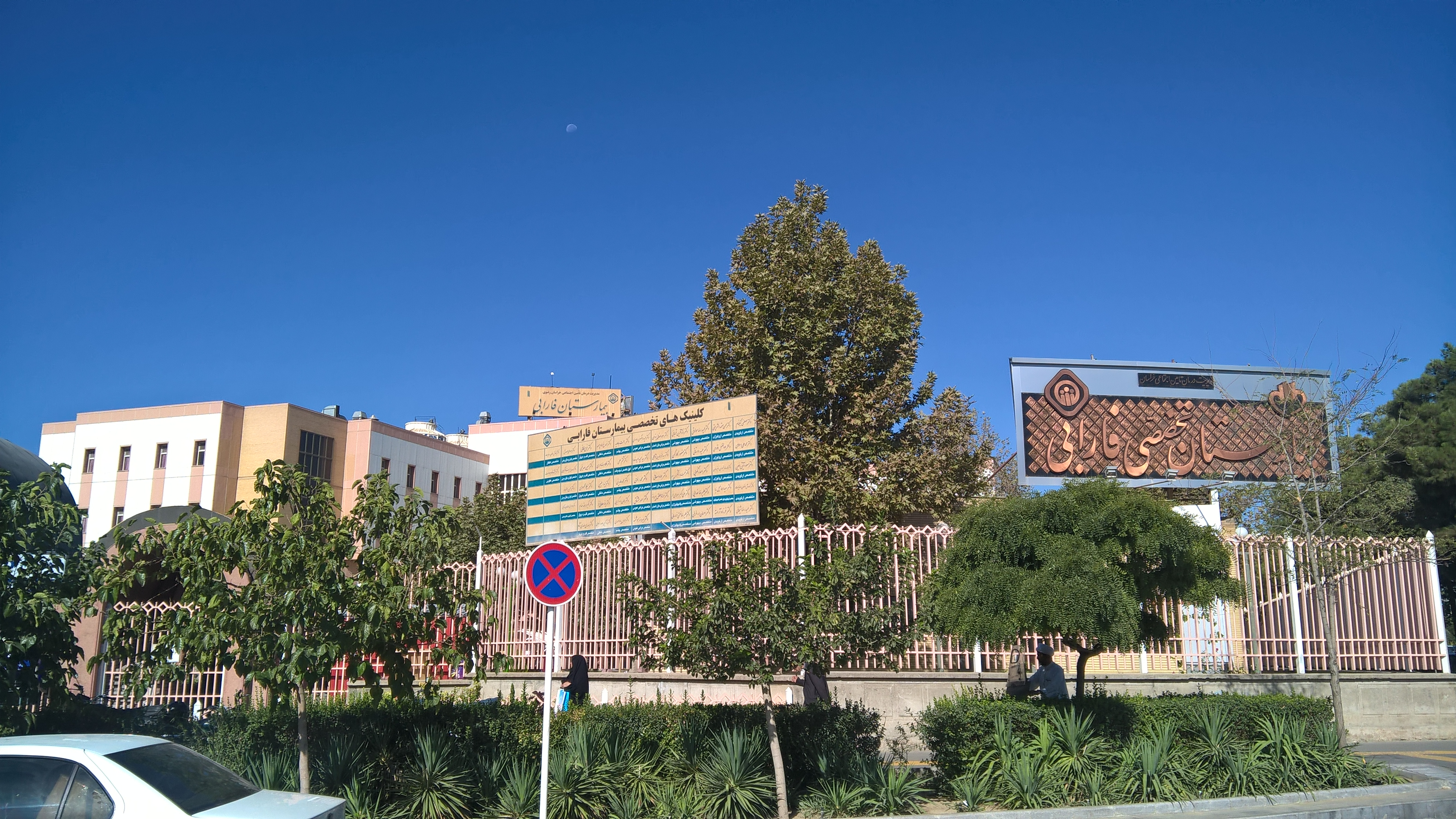 Mashhad Farabi Hospital